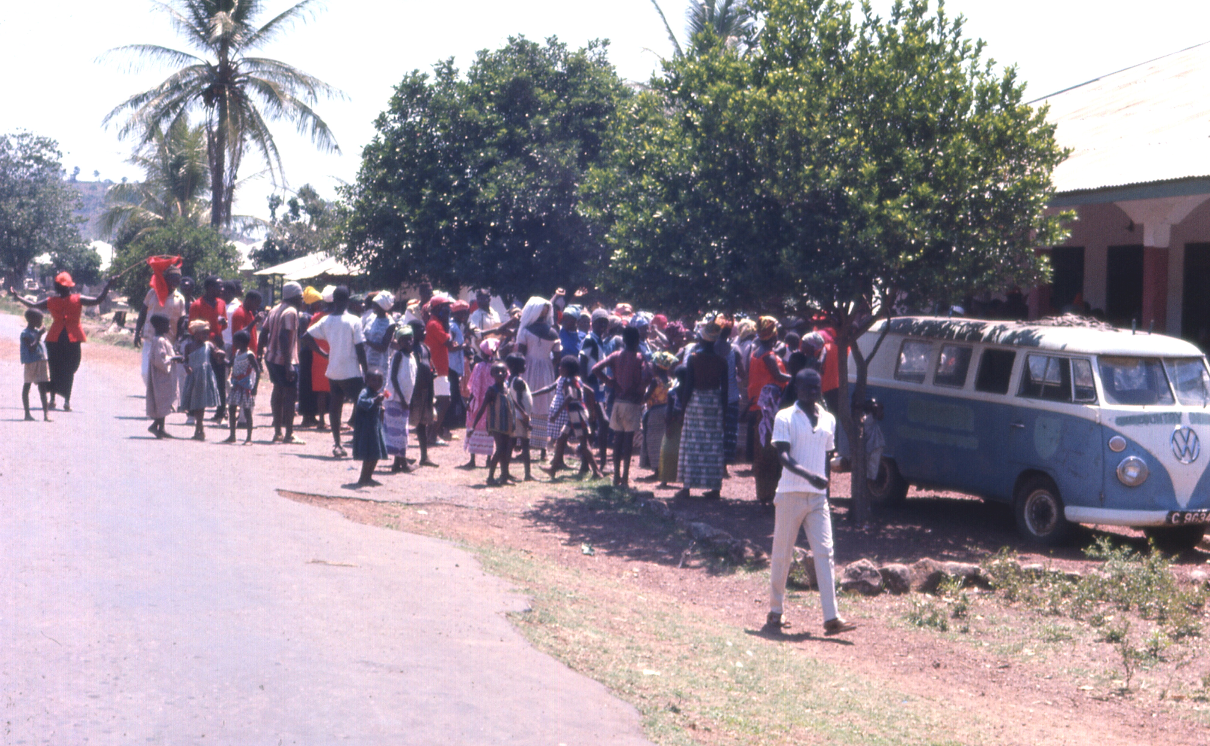 Red is the colour of the All People's Congress (A.P.C); they were demonstrating in front of houses belonging to people who supported the rival Sierra Leone People's Party (S.L.P.P.). Photo taken in 1968.